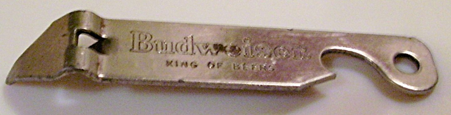 An old churchkey (beer can/bottle opener) I snapped a picture of.